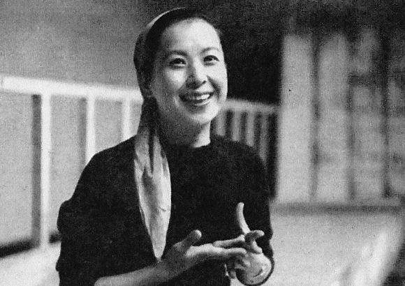 Yatsuko Tan'ami